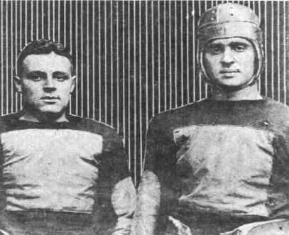 Brothers and teammates on the Harvard Crimson football team Arnold Horween (right) and Ralph Horween (left).